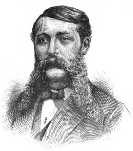 J. Hart Brewer (New Jersey Congressman)